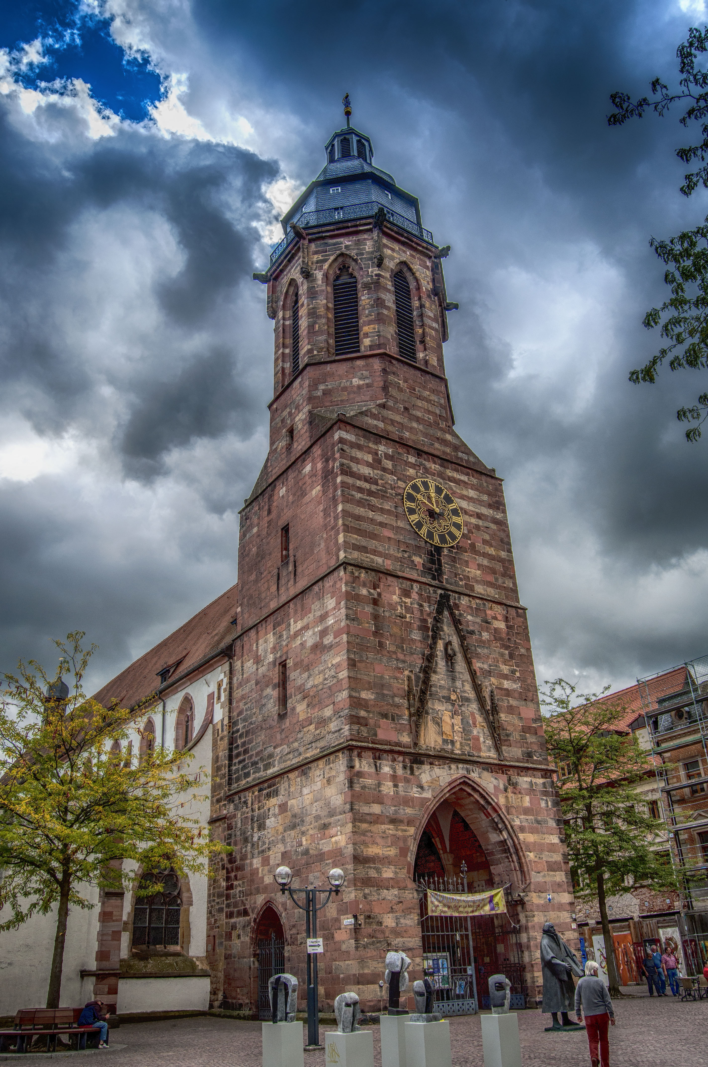 A part of Landau (Pfalz)